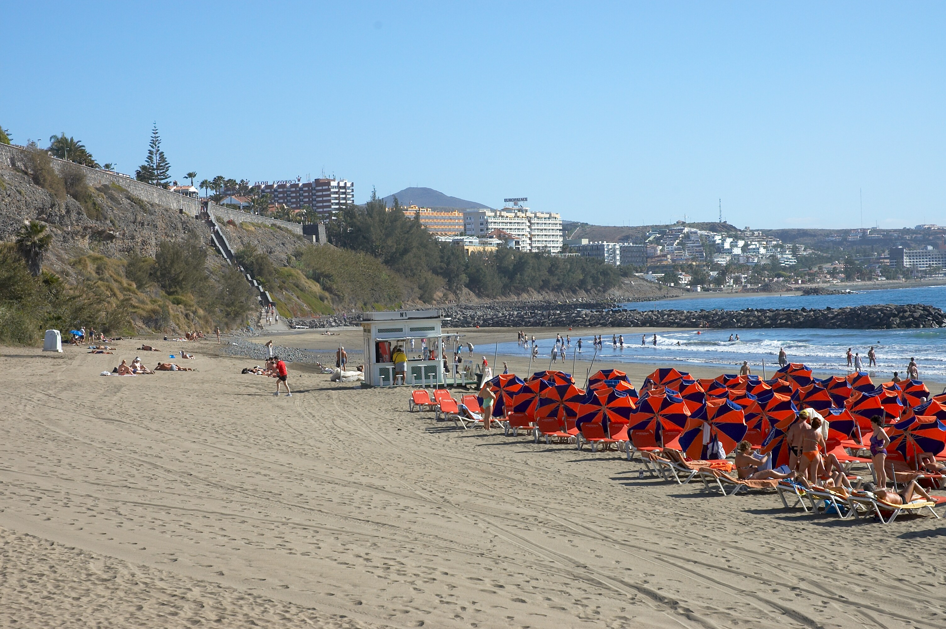 Gran Canaria, Playa del Inglés beach, looking direction NE.